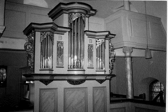 The organ at BechtheimThe organ in the village church at Bechtheim was built in 1753 by Johann Christian Köhler. Most of the nine stops (on a single manual and pedal) of the present instrument date back to Köhler's time, as does the Rococo-style casework.